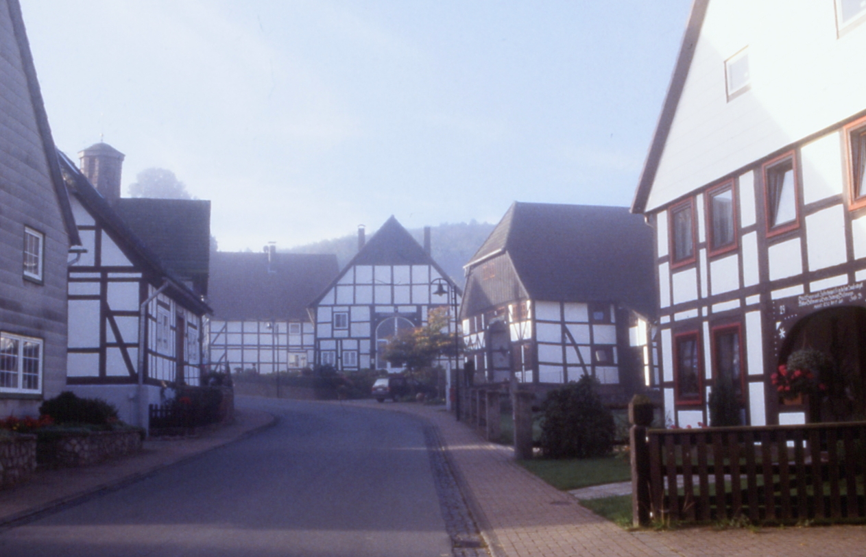 Reileifzen is a typical village in the valley of upper river Weser